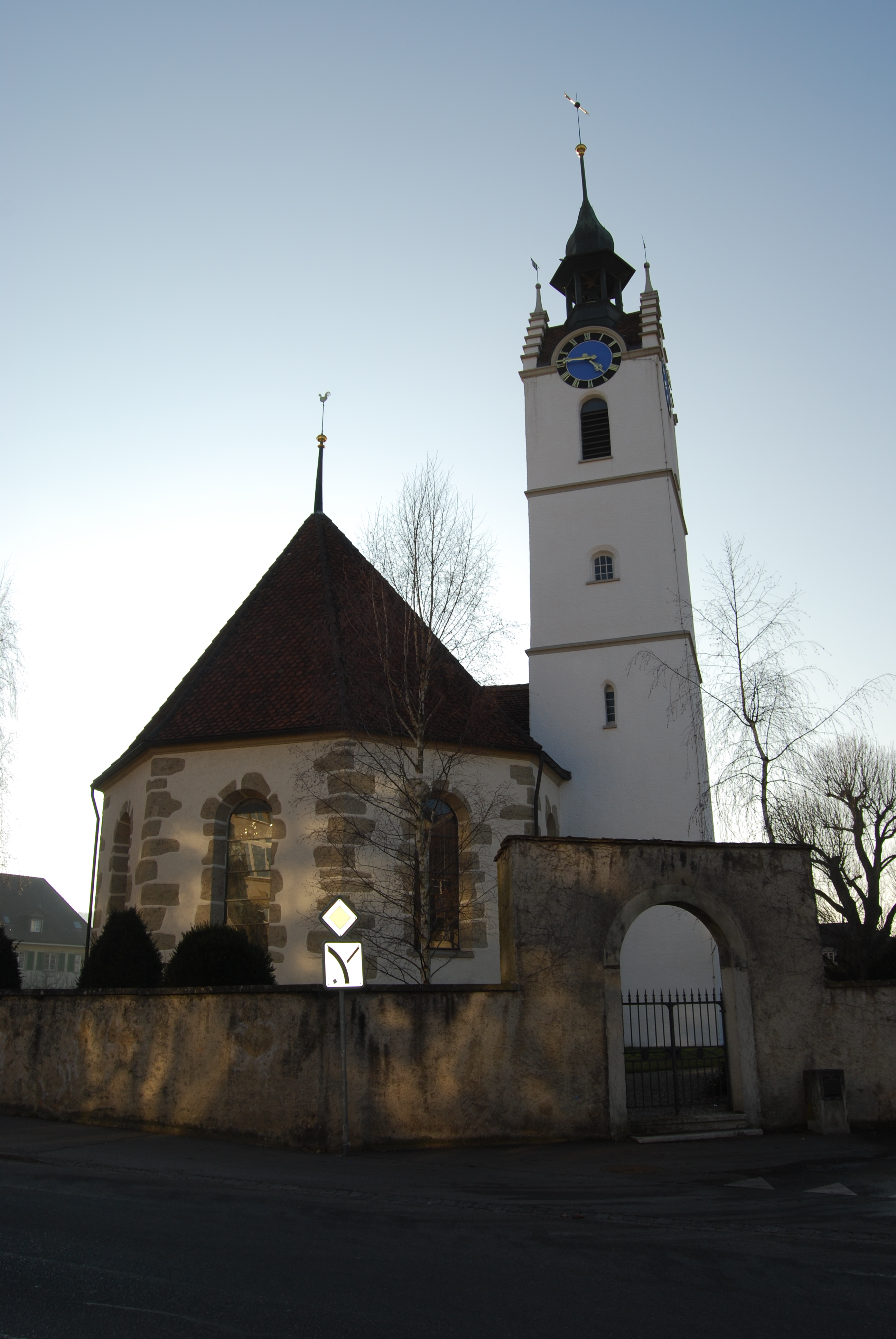 Protestant Church of Lotzwil, canton of Bern, Switzerland